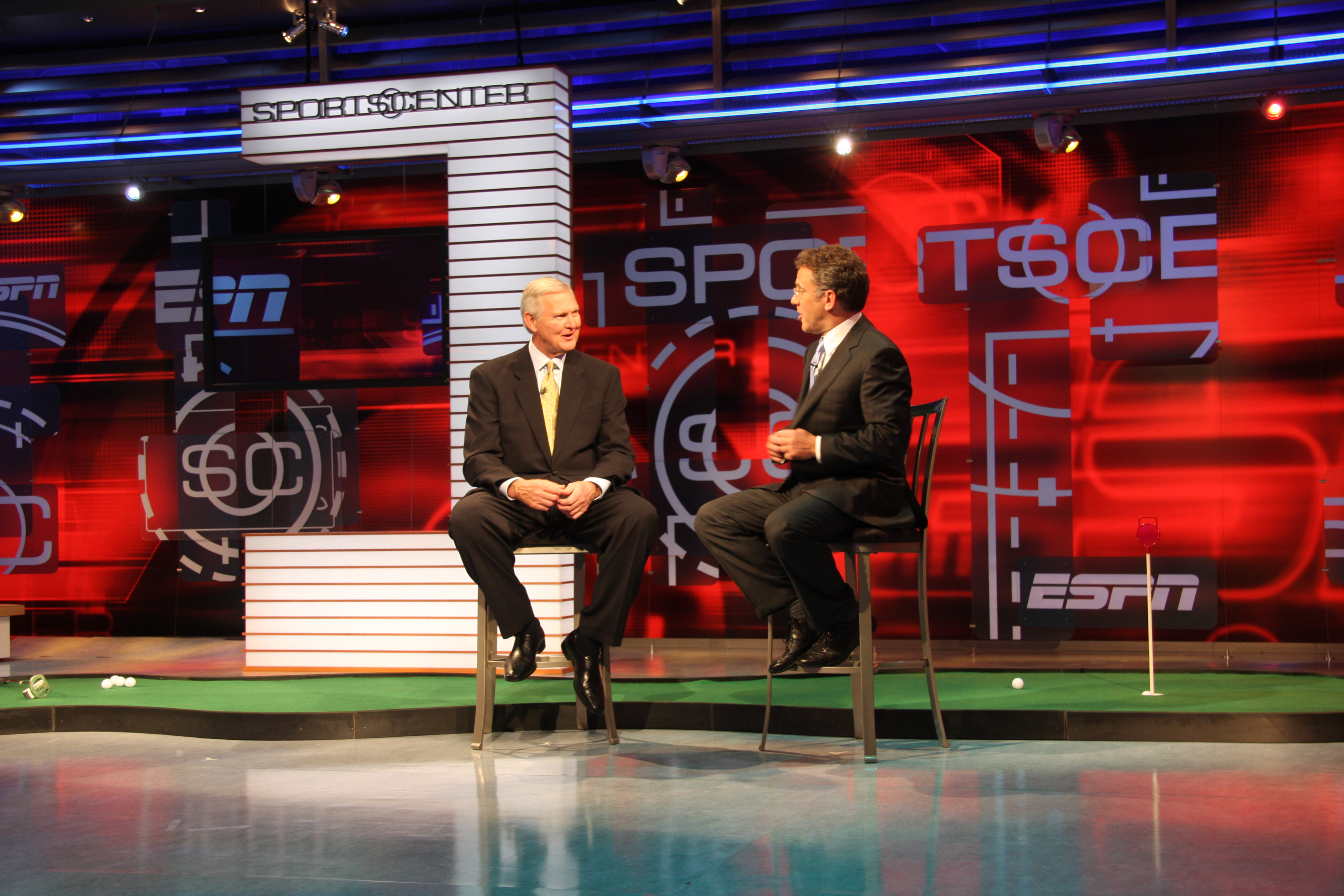 Jerry West interviewed on ESPN Los Angeles